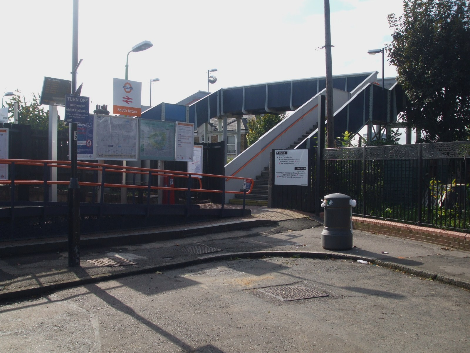 South Acton station western entrance